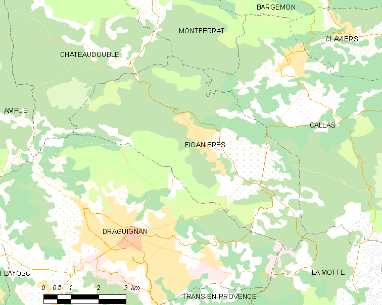 Map of French municipality Figanières